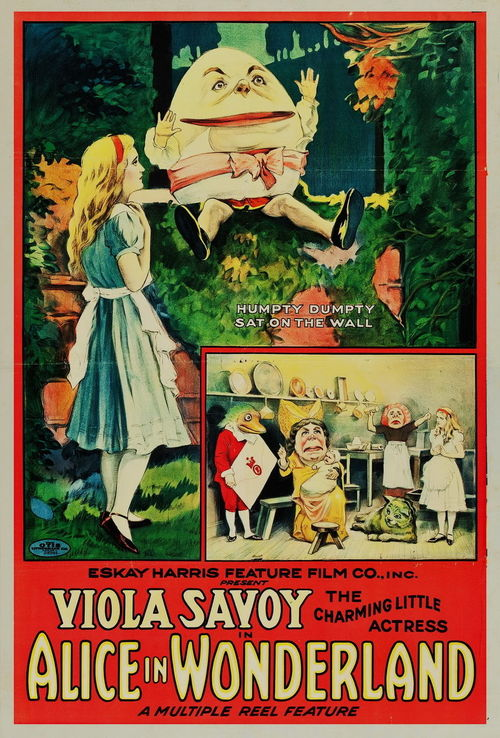 1915 poster for Alice in Wonderland featuring Viola Savoy, made by Gus Hill's Nonpareil Feature Film Company